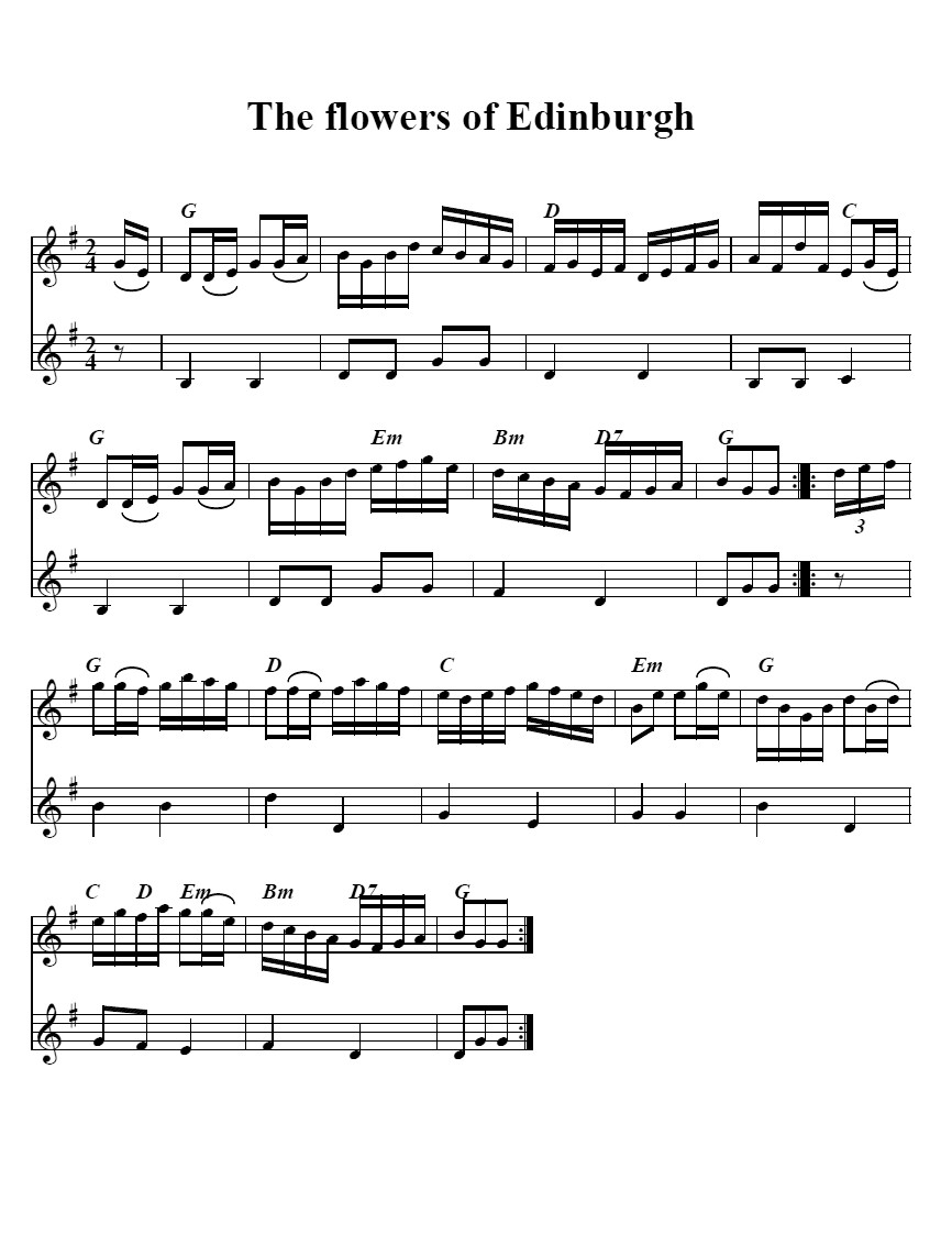 Traditional Celtic fiddle tune. A more neutral perspective suggests that the tune "dates from near 1740, may have been written by Oswald though he didn't claim this."